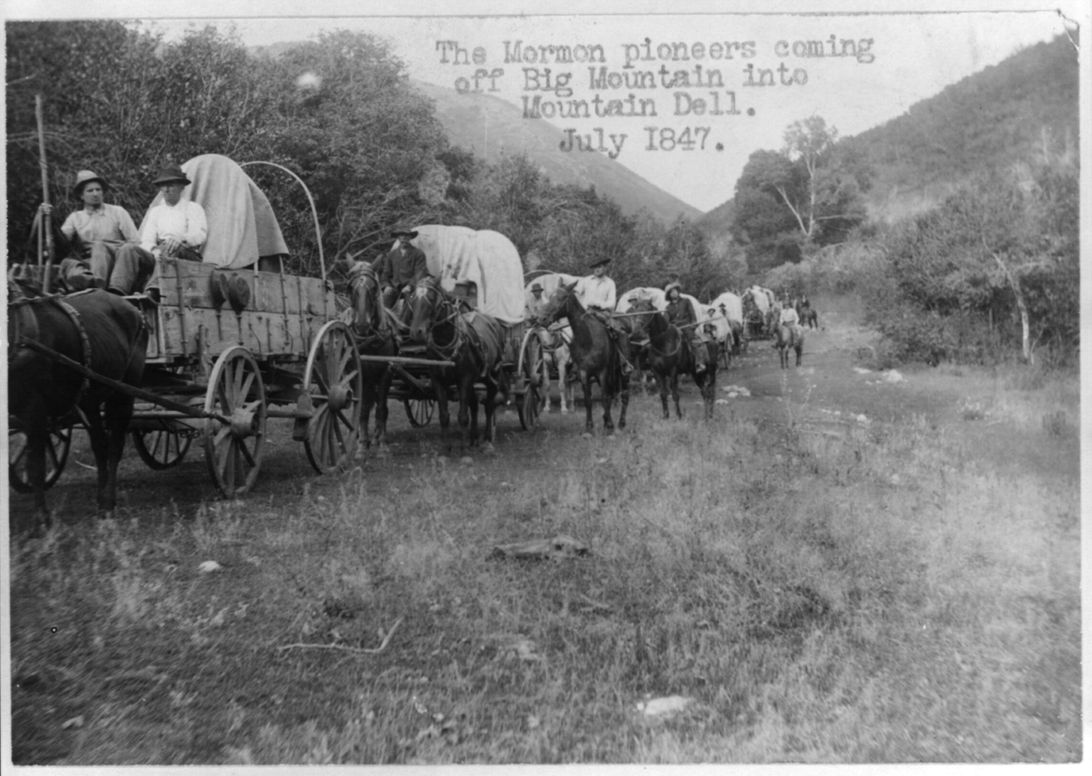 A Pioneer Day re-enactment of Mormon pioneers entering the Salt Lake Valley in July 1847, with covered wagons coming off Big Mountain into Mountain Dell, by members of The Church of Jesus Christ of Latter-day Saints.